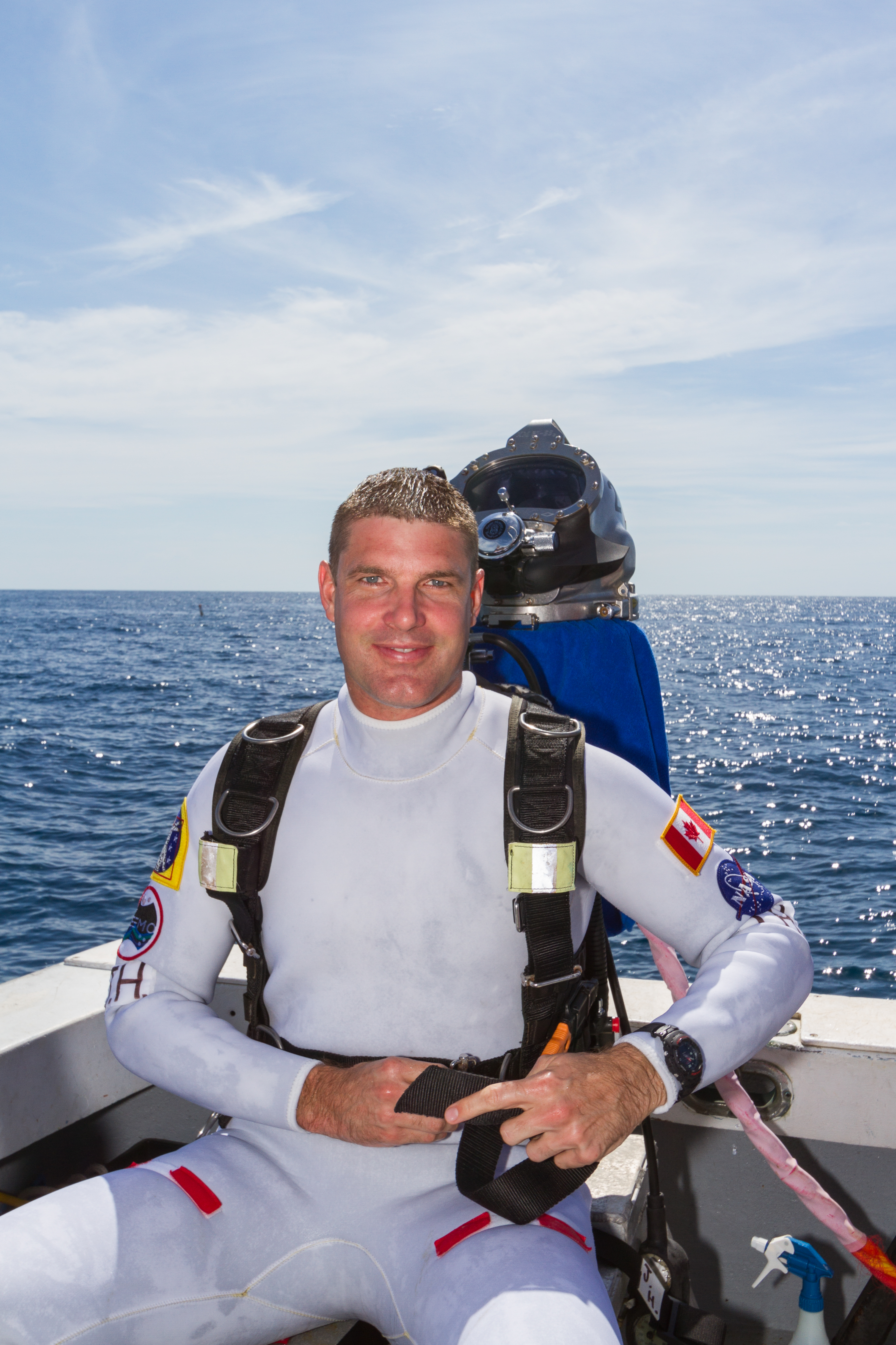 NEEMO 19 aquanaut Jeremy Hansen